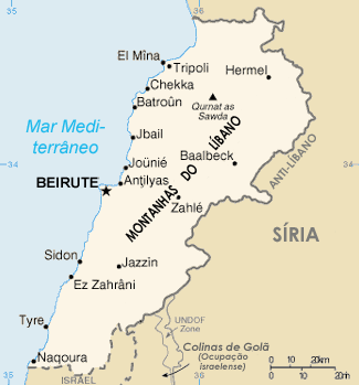 Map of Lebanon, in Portuguese.